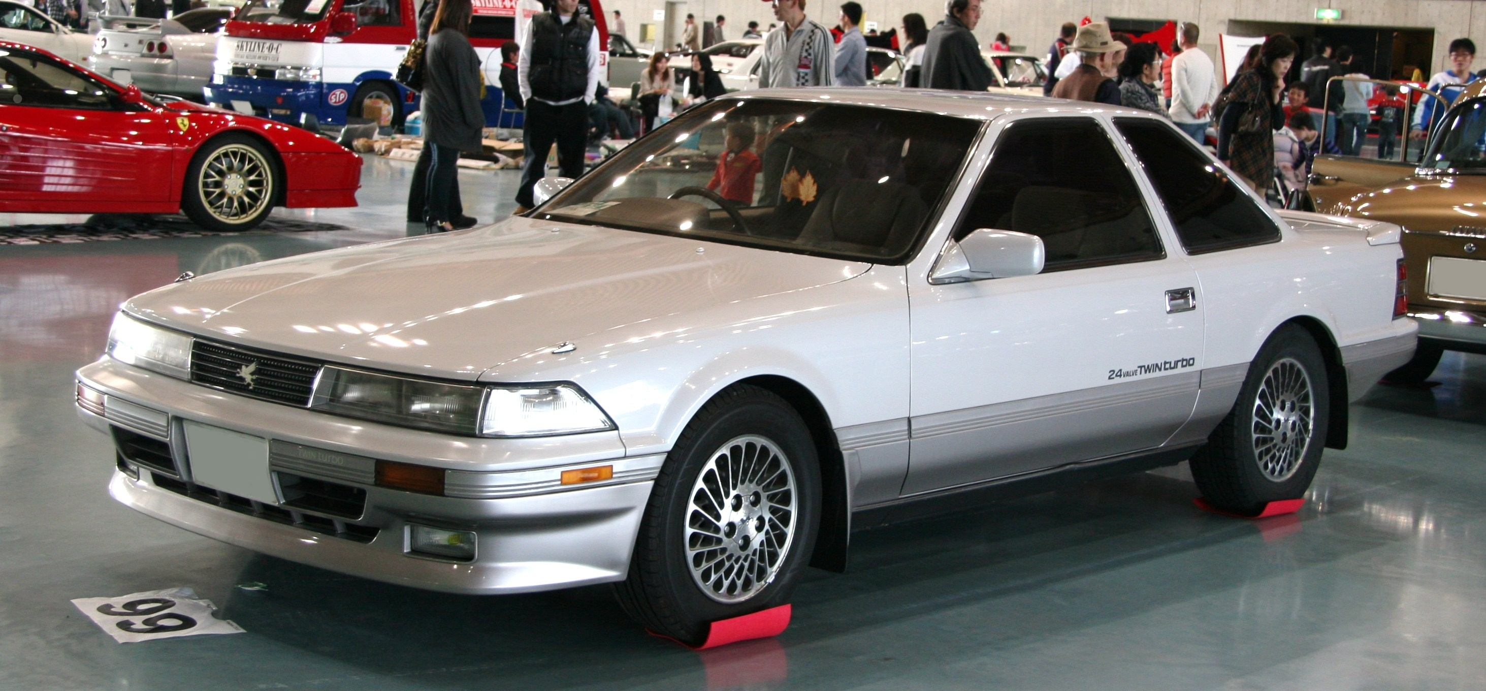 Toyota Soarer